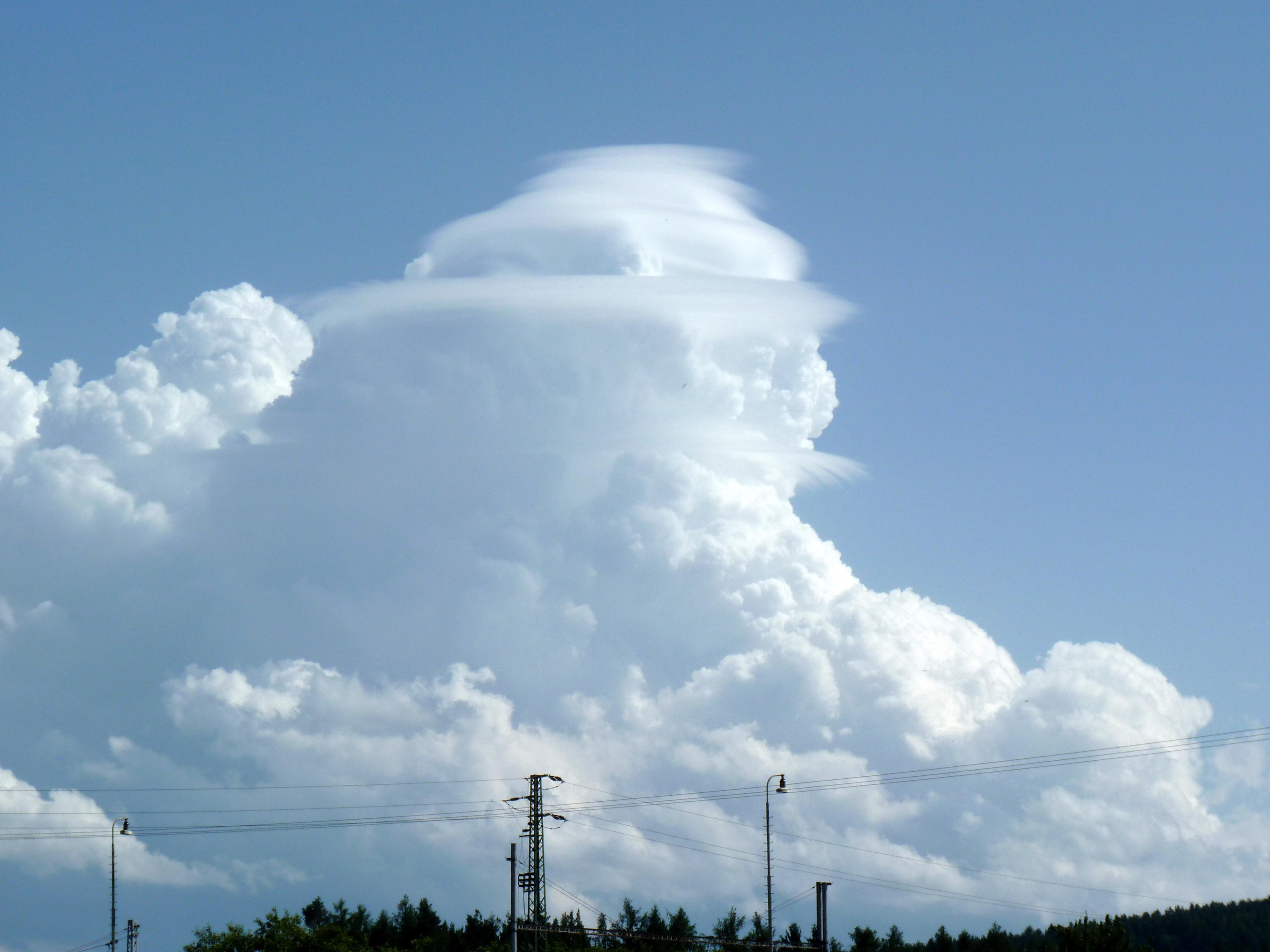 Cumulus congestus pileus in the Czech Republic (Southern Bohemia), 28.06.2012